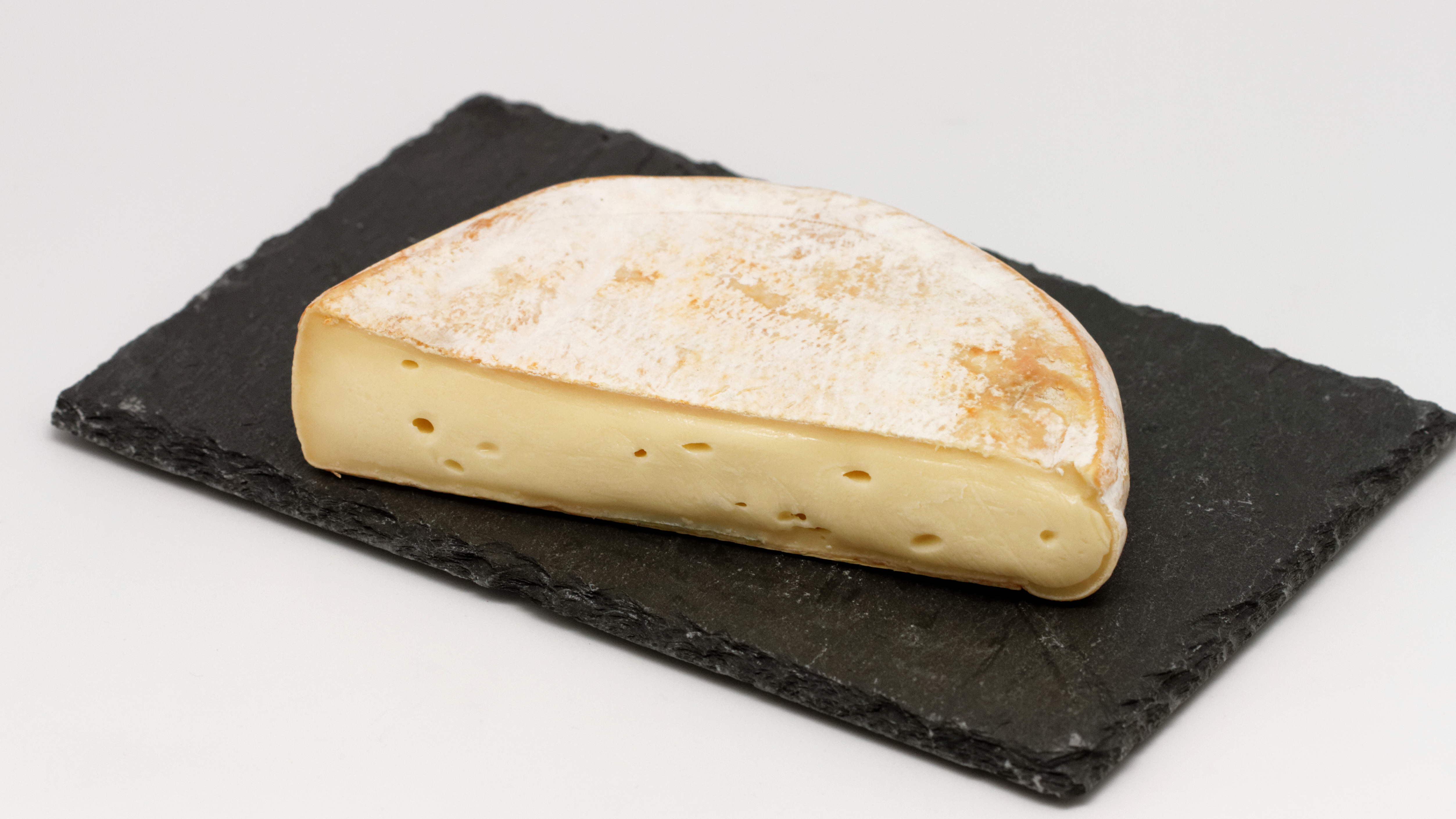 half Reblochon (cow's milk cheese)